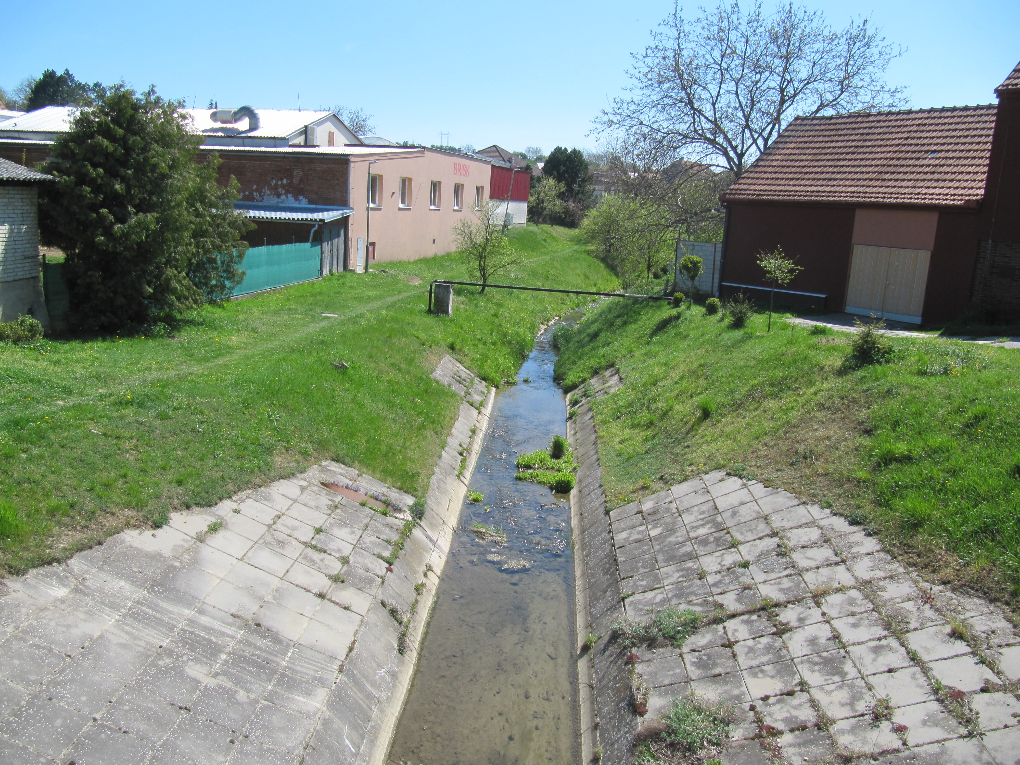 Ježov, Hodonín District, Czechia.